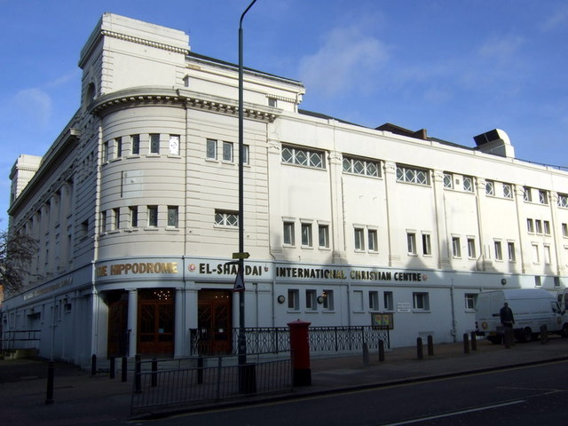 Golders Green Hippodrome Opened in 1913, this old music hall, then theatre, has had an illustrious history as venue for many famous plays (pre and post their London tours), BBC concerts and shows, boxing, filming, opera, rock music and so on. When the BBC vacated it in 2003 its condition deteriorated and it was considered 'at risk'. Hopes that it might once again become an entertainment centre were dashed when it was acquired by the El-Shaddai evangelical Christians for 5 million pounds.